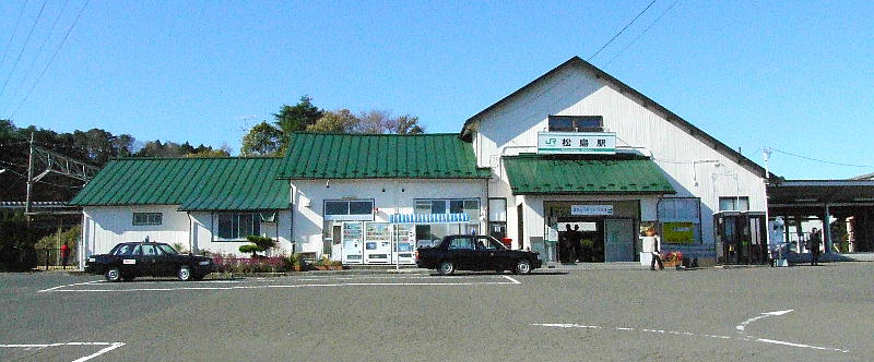 Matsushima Station. Matsushima, Miyagi prefecture, Japan.